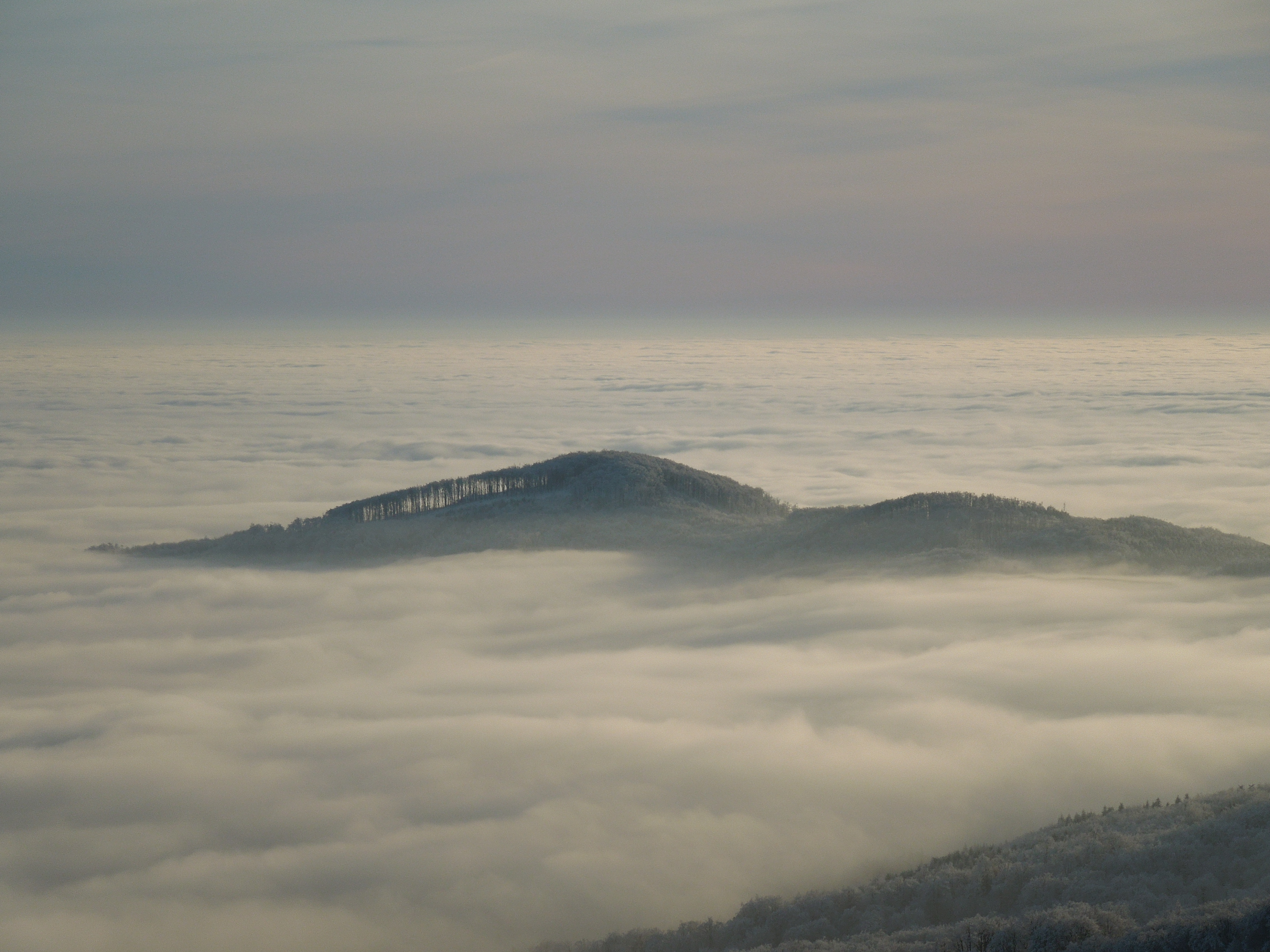 View of peak Lysák from peak Sninský kameň during the inversion This is a photography of Natura 2000 protected area with ID SKUEV0209